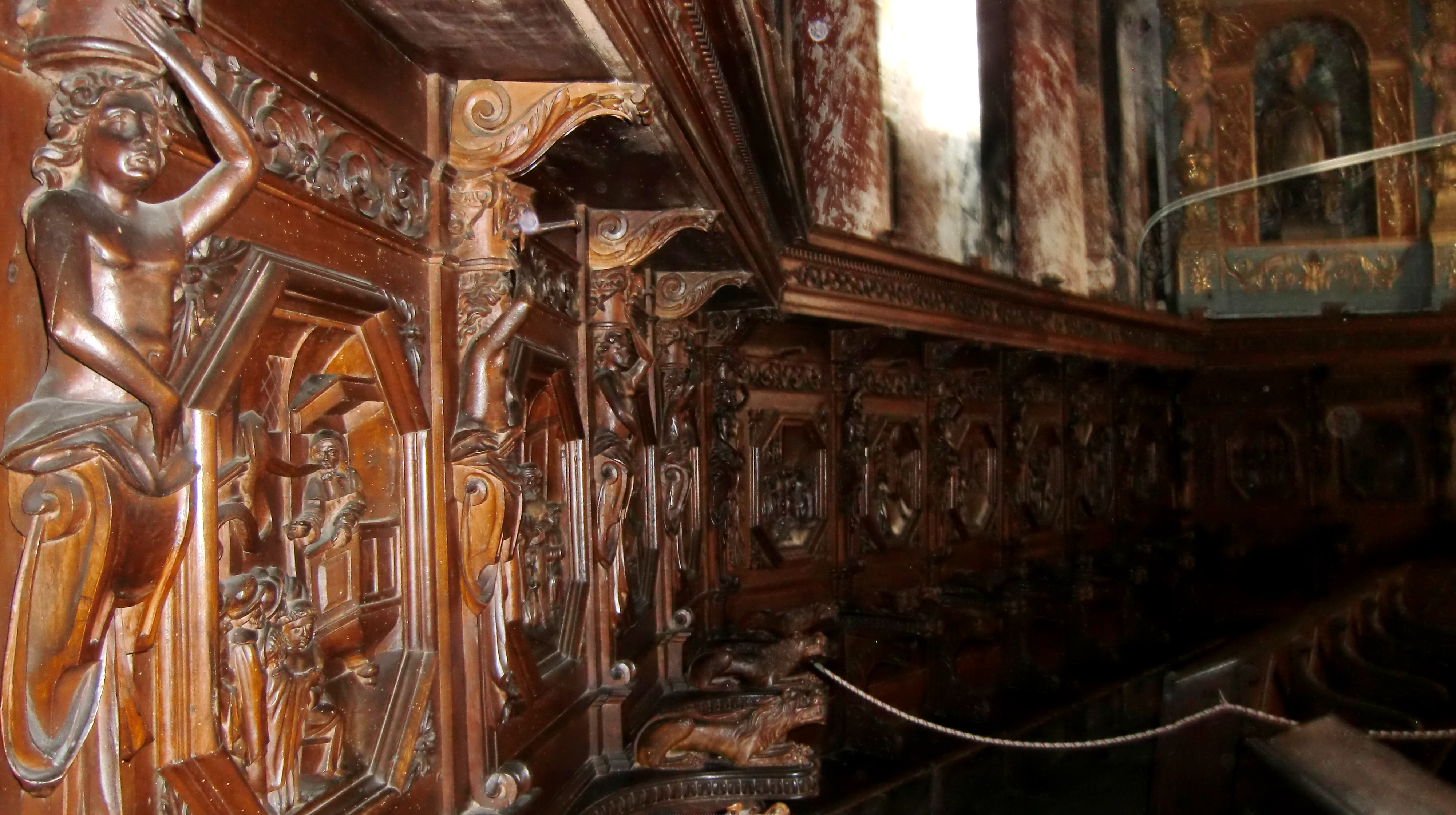 Francesco Mabrito, Episode in the life of St. Nicholas of Tolentino, 1684, choir stalls, Chiesa di San Nicola da Tolentino, Ivrea, Italy